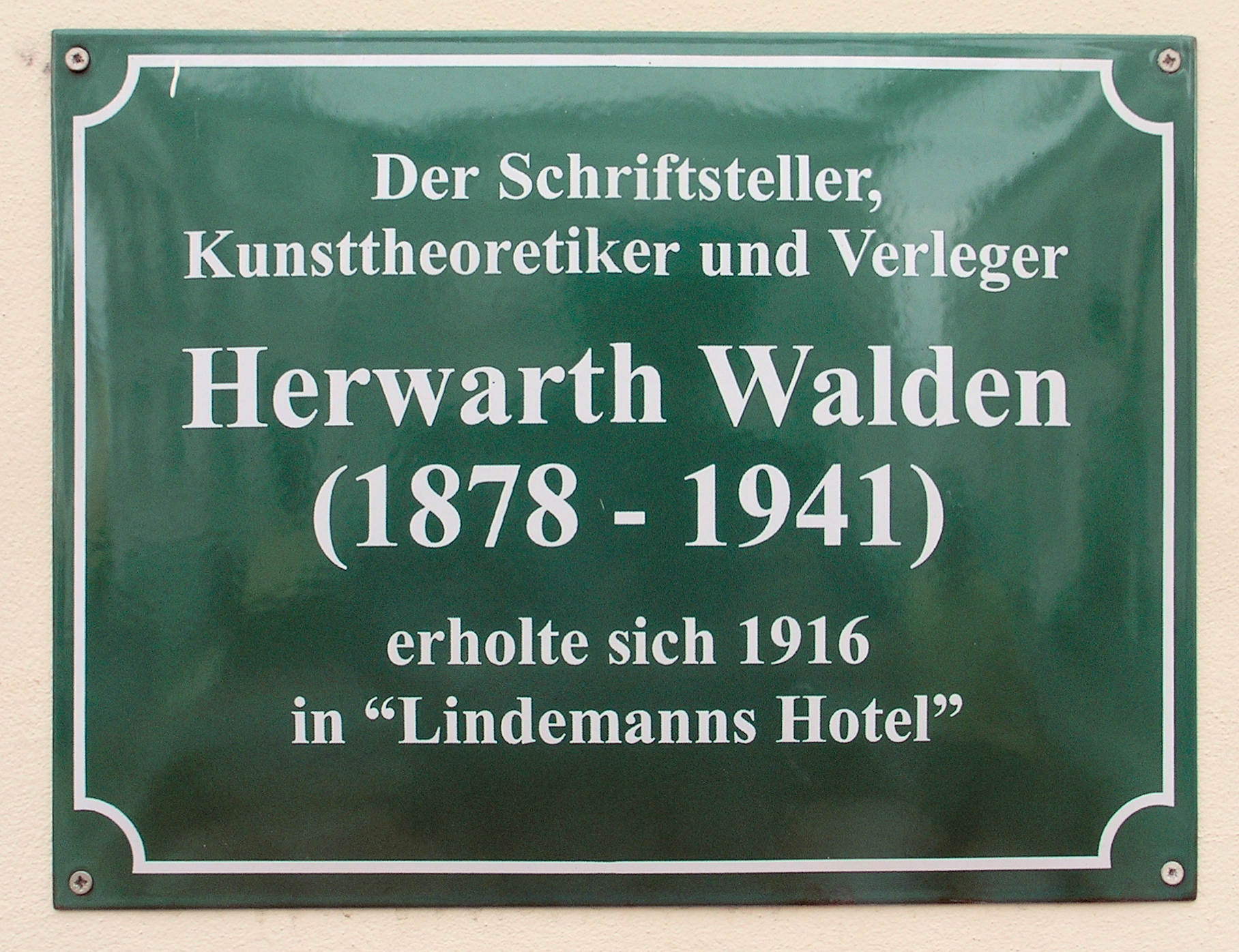 Memorial plaque, Herwarth Walden, Seestrasse 41, Heringsdorf, Germany Koordinate:53°57′22″N 14°9′55″E / 53.95611°N 14.16528°E